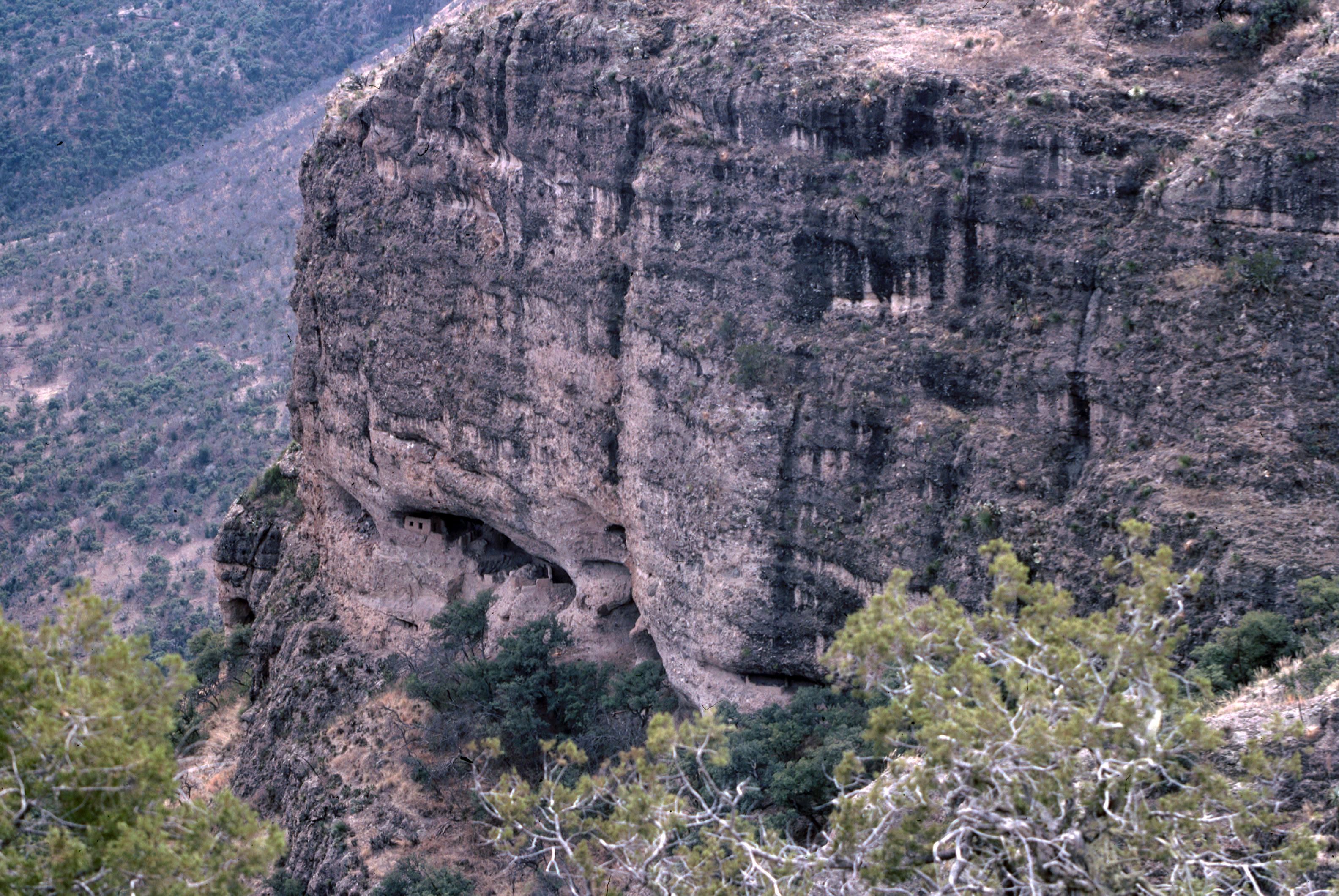 Complejo Huapcoa, Chihuahua, Mexico: Cliff dwellings